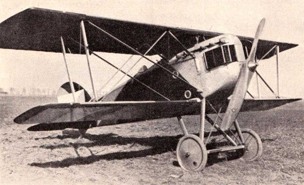 Aero A.18 was a biplane fighter aircraft built in Czechoslovakia in the 1920s.